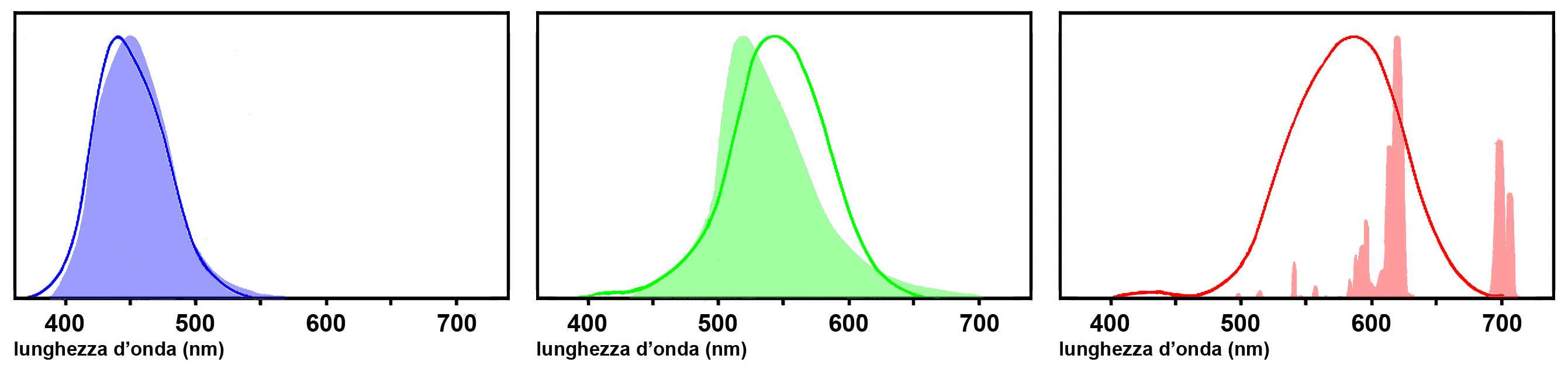 Curves: Spectral sensitivity of human photoreceptors. - Filled areas: Spectral power of light emitted by RGB filters filters used in color TV sets.